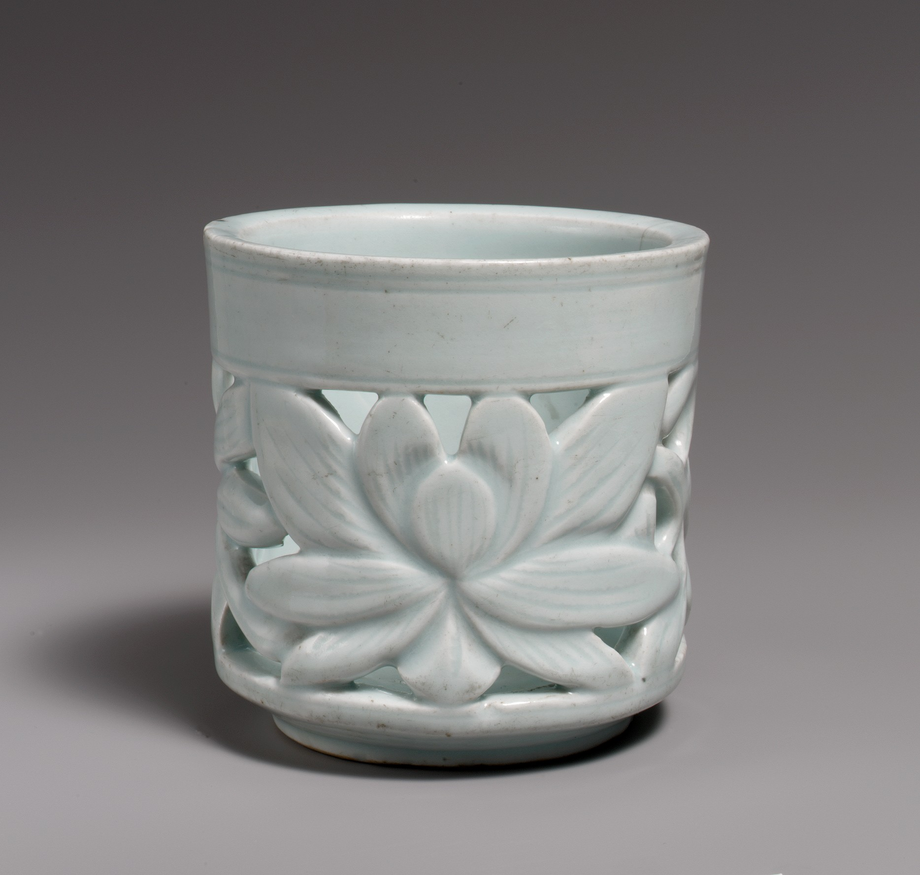 Korea; Brush holder; Ceramics